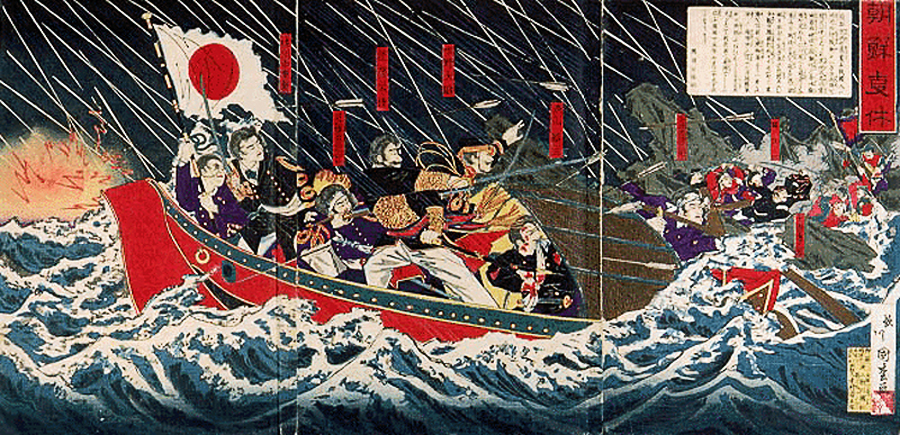 Ukiyo-e depicting the Flight of the Japanese legation in 1882.